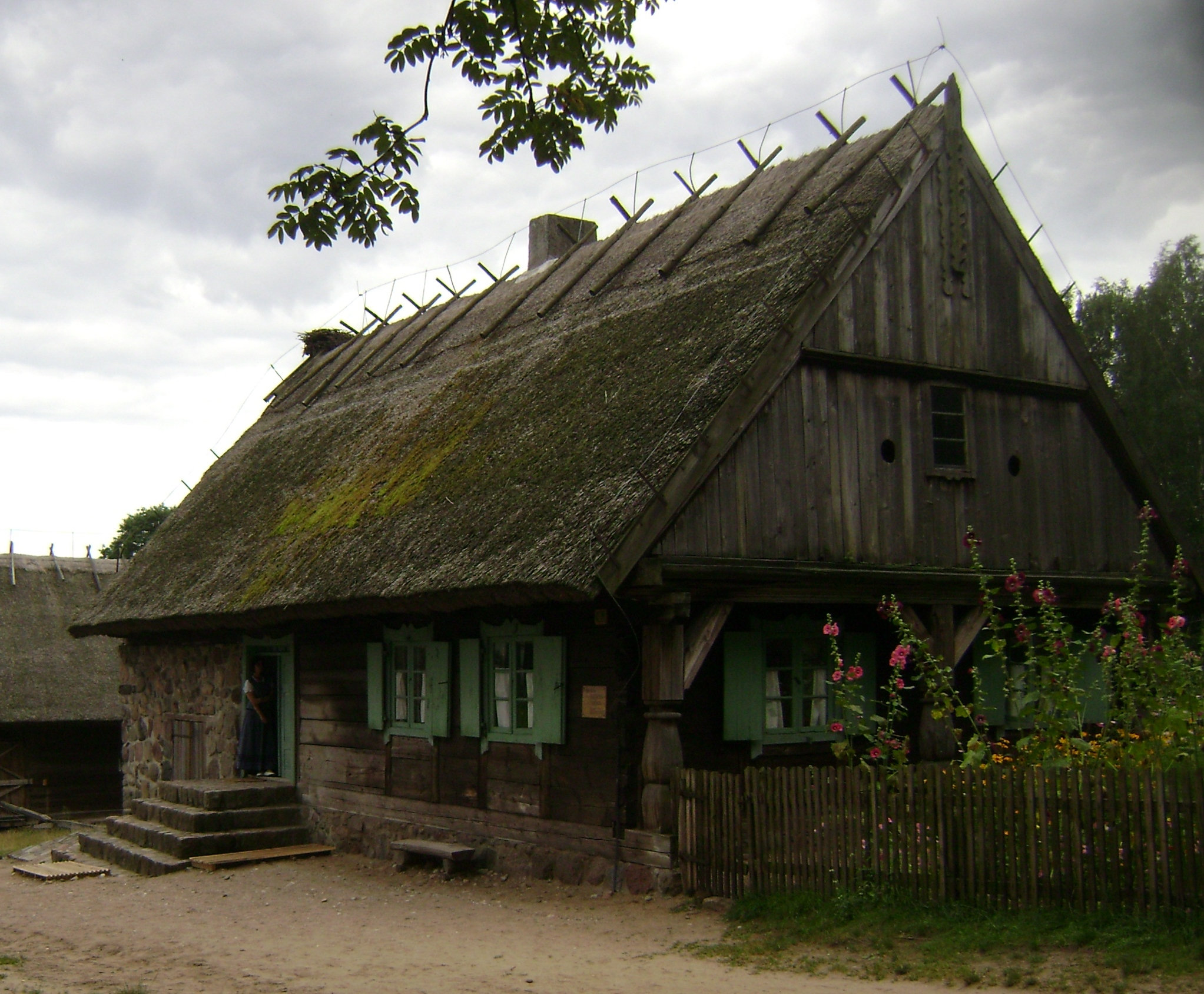 Poland. Olsztynek. Open air museum. (Skansen).